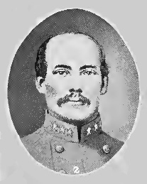 Charles C. Tew, 1st colonel of 2nd North Carolina infantry regiment (1861 - 1862)